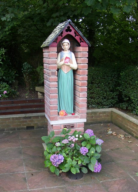 St Margaret Clitherow, Ladyewell House, Broughton (Preston) Martyred in York, killed by a mob who crushed her with heavy stones.